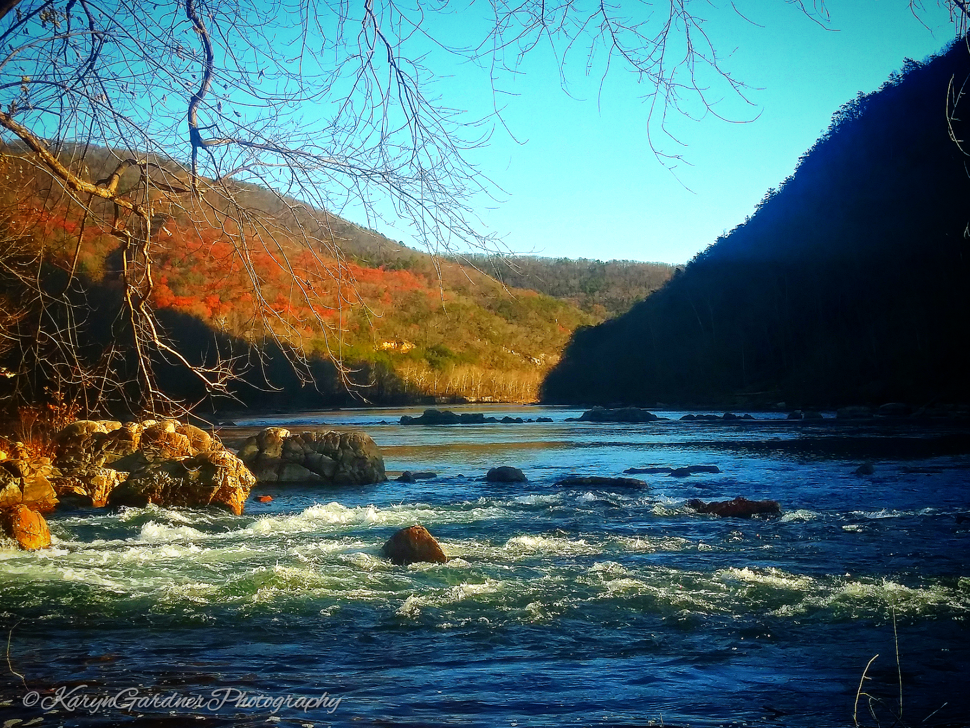 This is a view over James River looking downstream near Glasgow Landing where the Maury River meets the James.